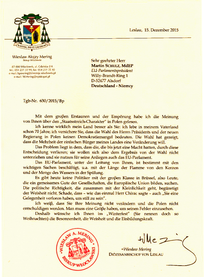 Letter from Wiesław Mering to Martin Schulz